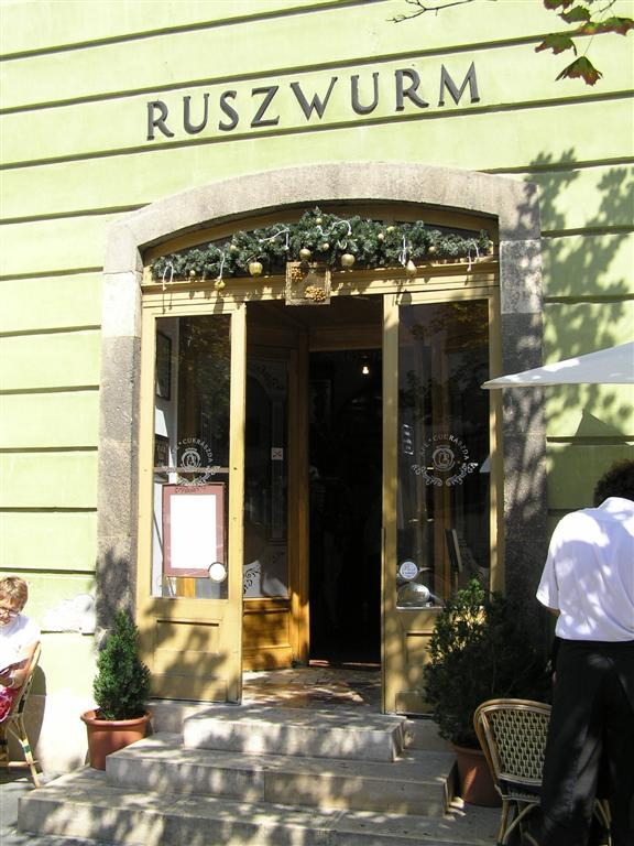 Photo: Bengt Olof ÅRADSSON